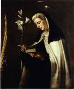 Painting with blessed Joan of Toulouse, foundress of the Carmelite Tertiaries.